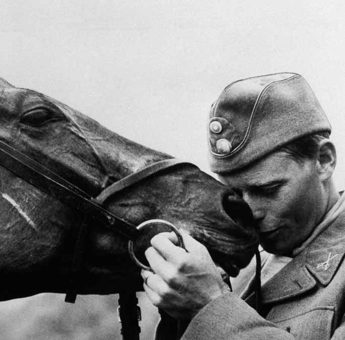 Petrus Kastenman, 1956 Olympics